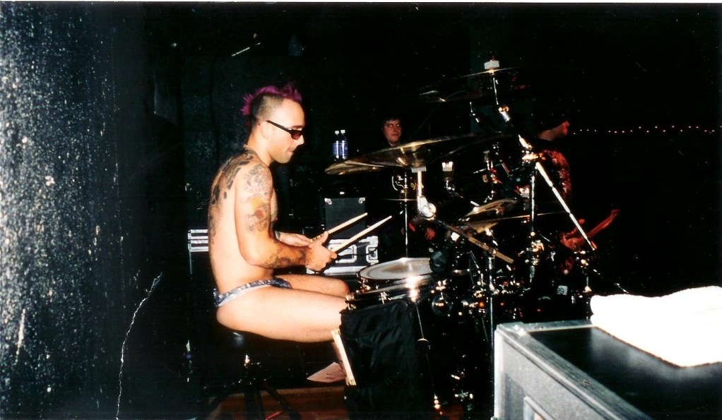 Dusty Brill